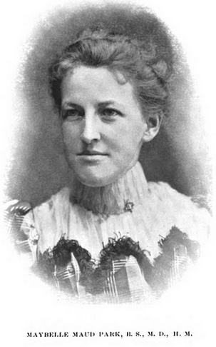 Maybelle Maud Park, from a 1900 publication. A white woman with sandy hair in an updo, and a high-necked pleated bodice.